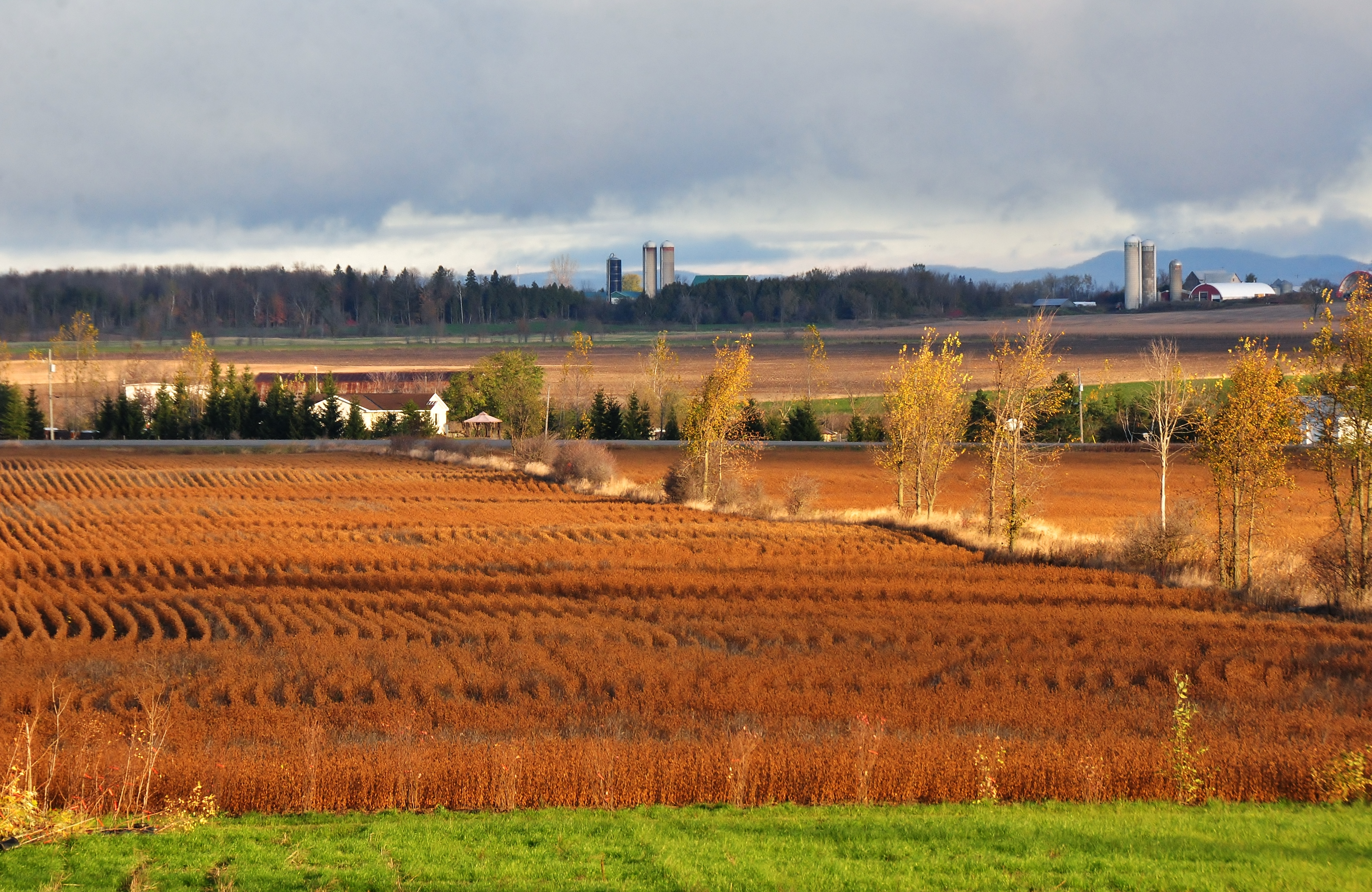 Soya field on the Mazepa Farm near Ottawa, Canada in the end of October